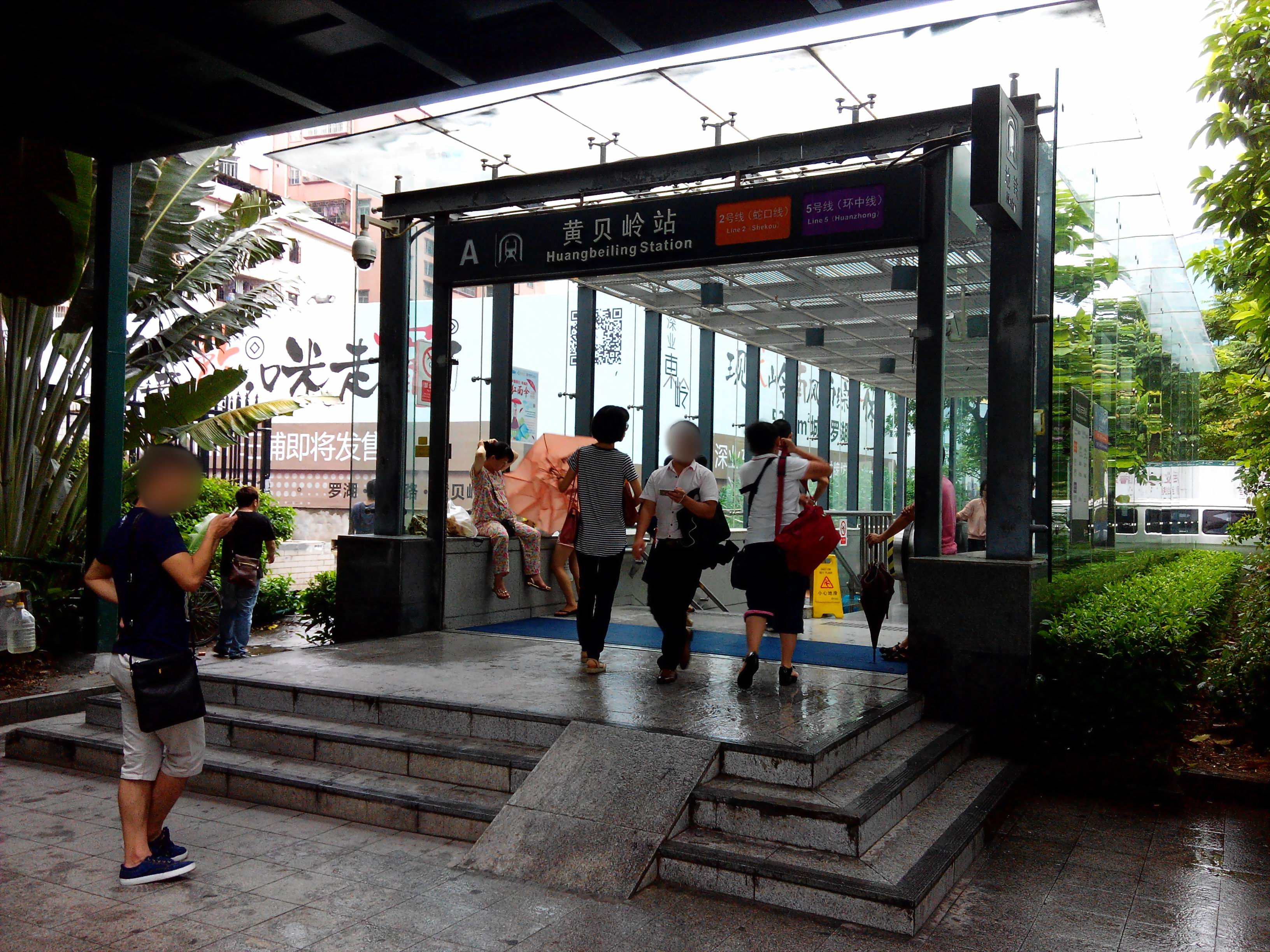 Shenzhen Metro Huangbeiling Station Exit A